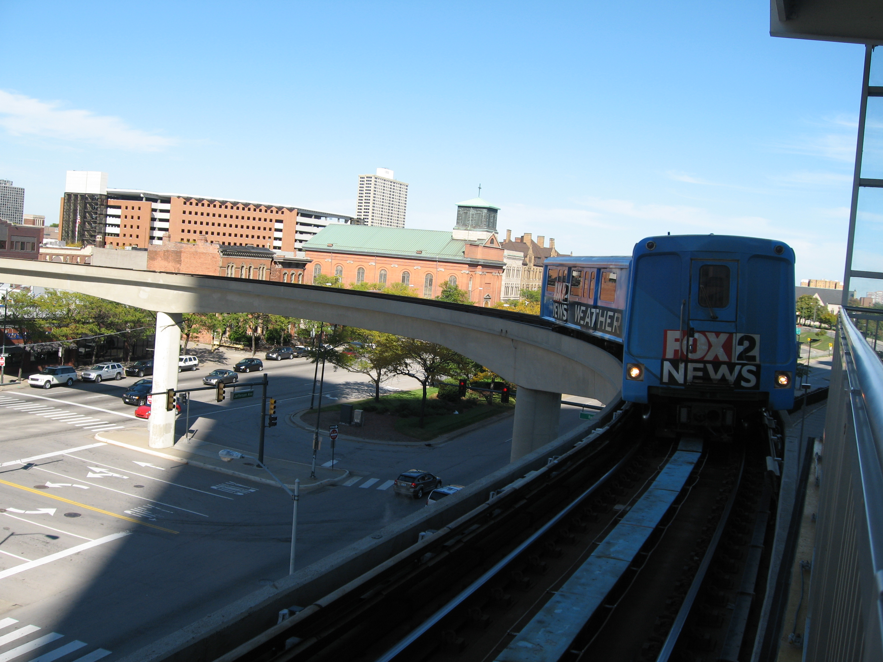 Detroit Peapole moving entering Renaissance Center Station